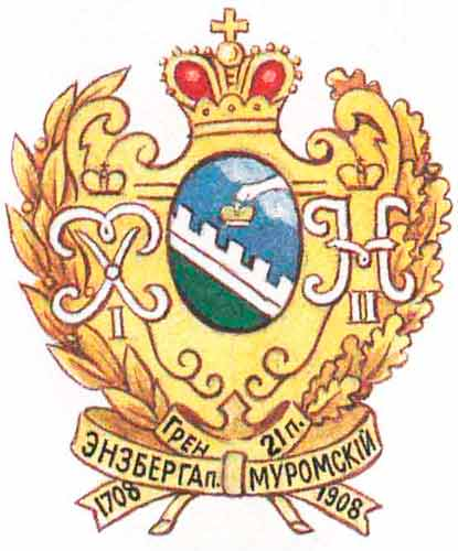 Badge of Muromsky 21-st Regiment